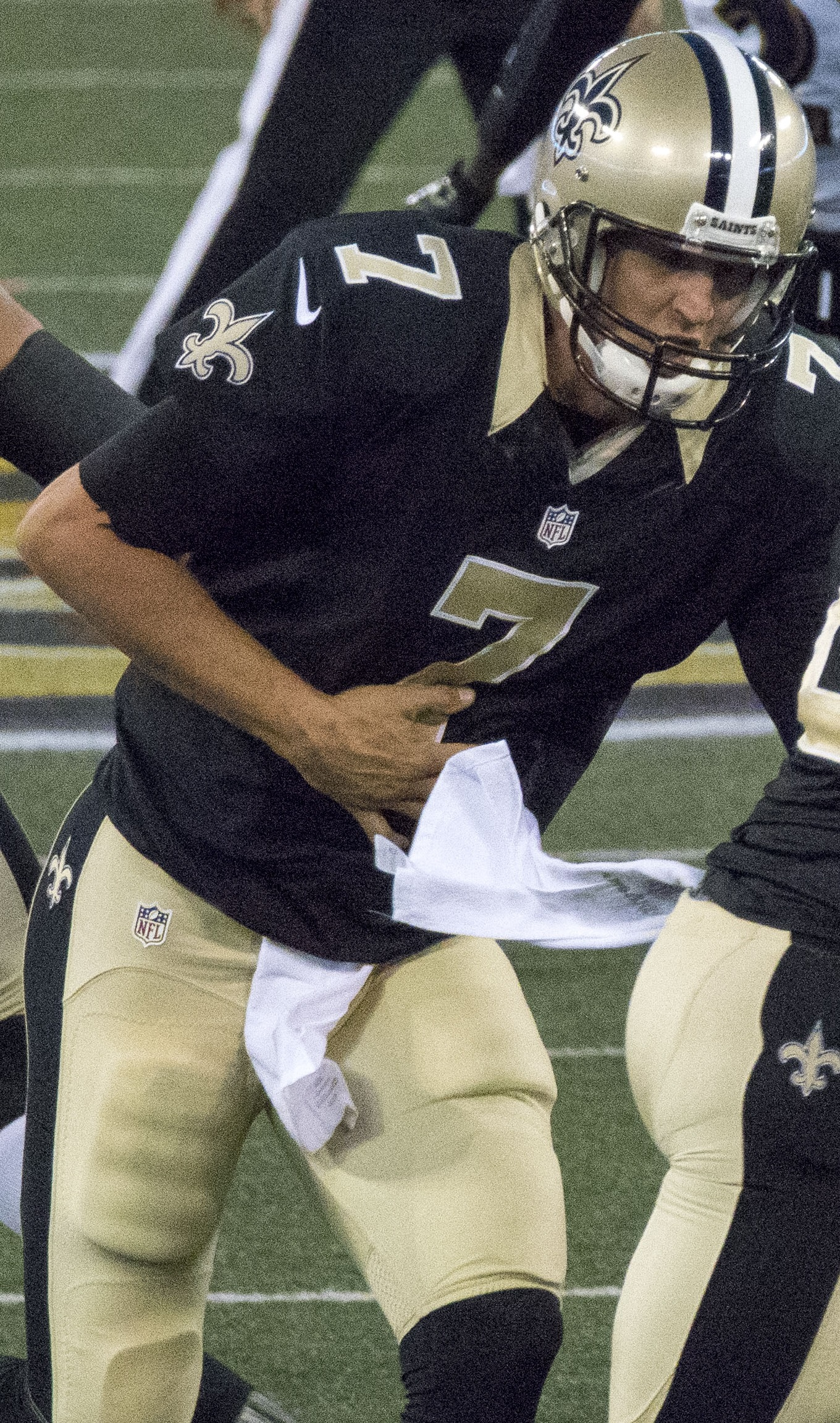 Saints at Ravens 8/13/15